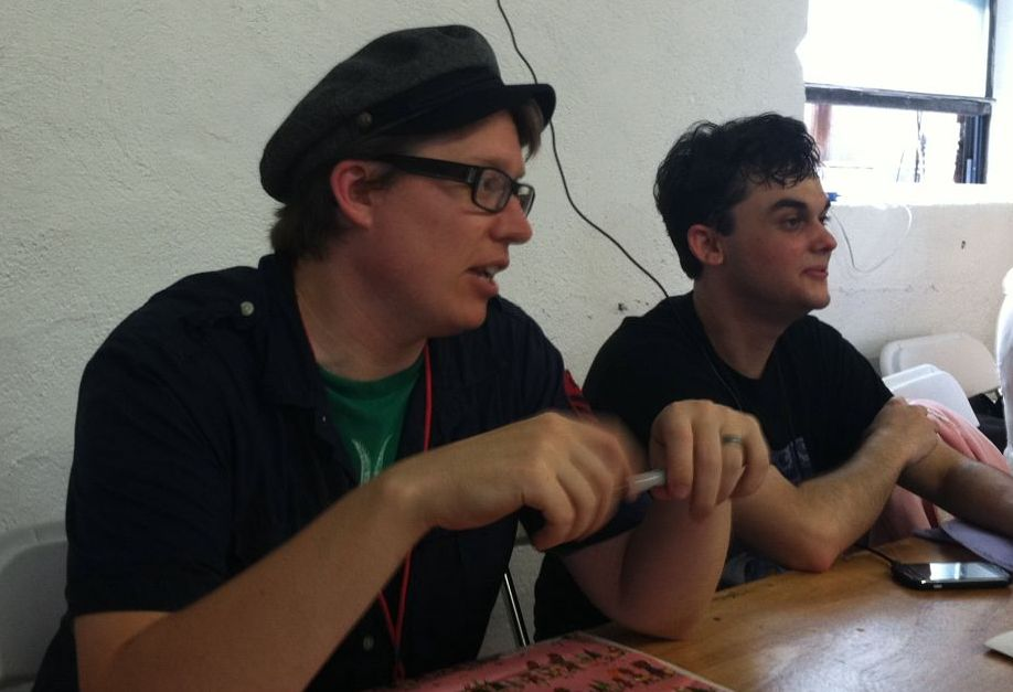 Jayson Thiessen and Sethisto as Guests of Honor at BroNYCon Sept. 2011